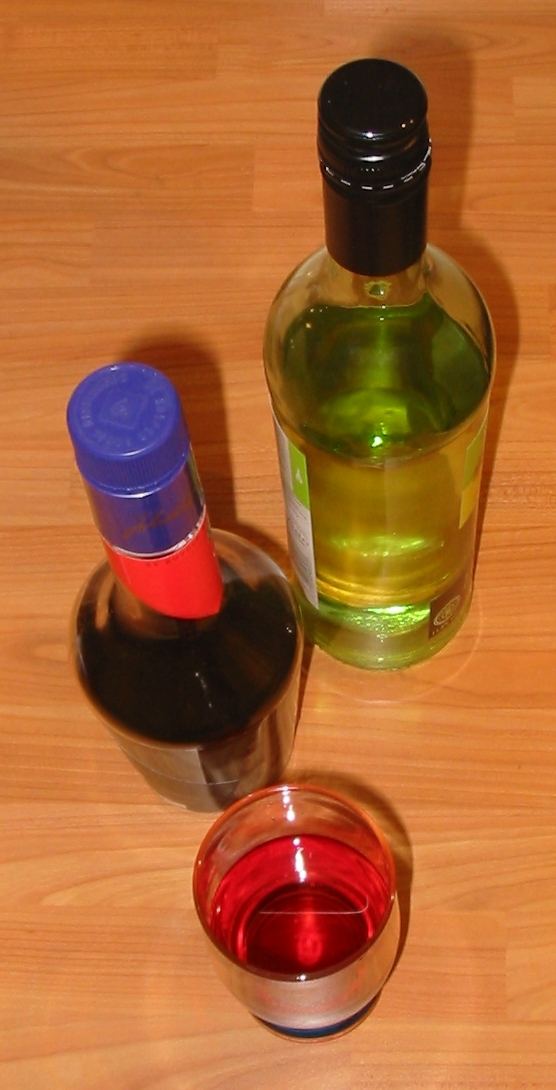 Kir, an apéritif made with white wine and crème de cassis Kir